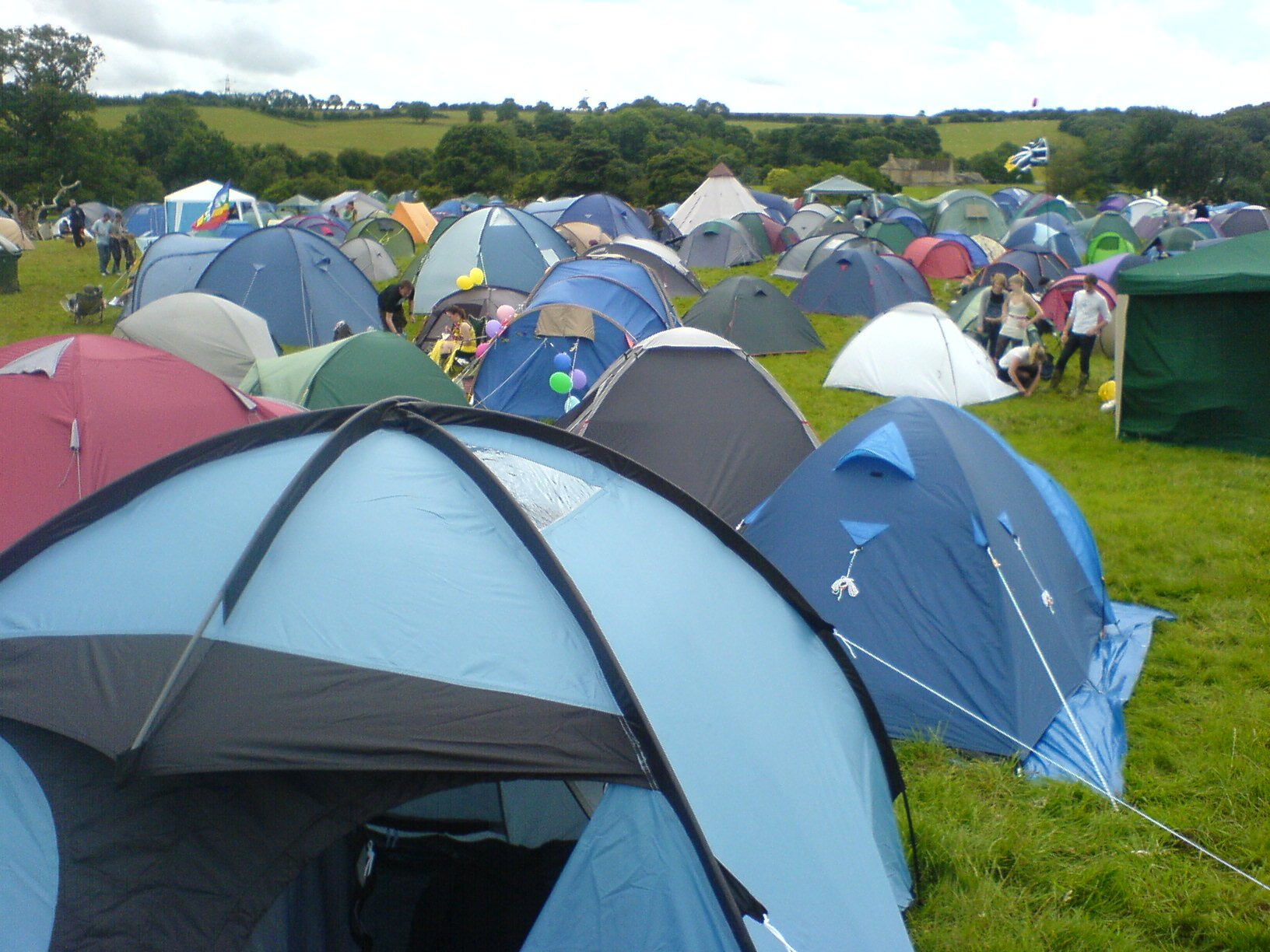 Campsite at the Two Thousand Trees Festival at Upcote Farm, Withington, near Cheltenham in Gloucestershire